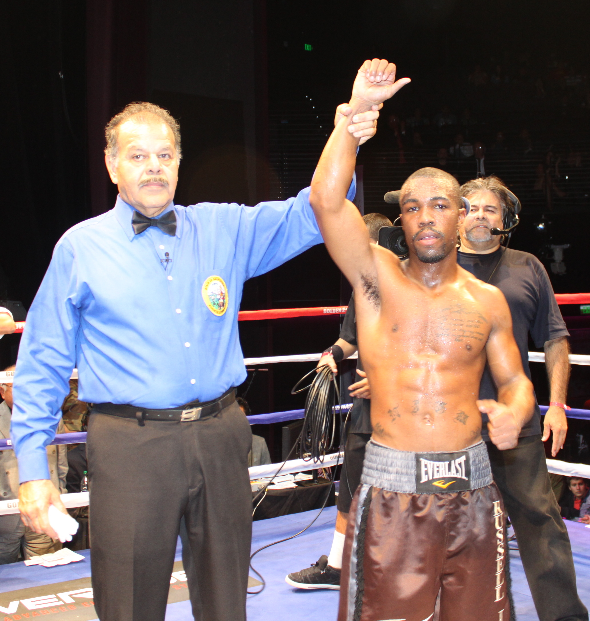 Gary Russell, Jr. at Fight Night Club event at the Club Nokia in Los Angeles, California, United States.